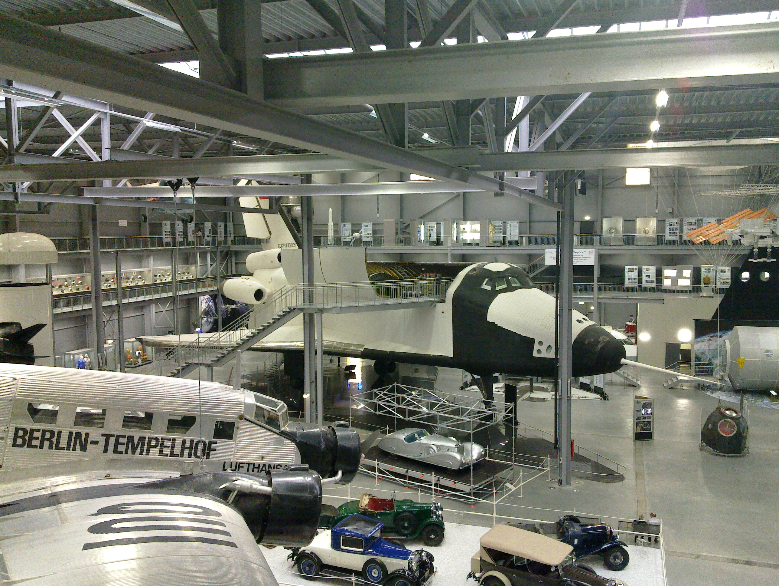 A side picture of the russian Buran space shuttle in the Technik-Museum Speyer, Germany